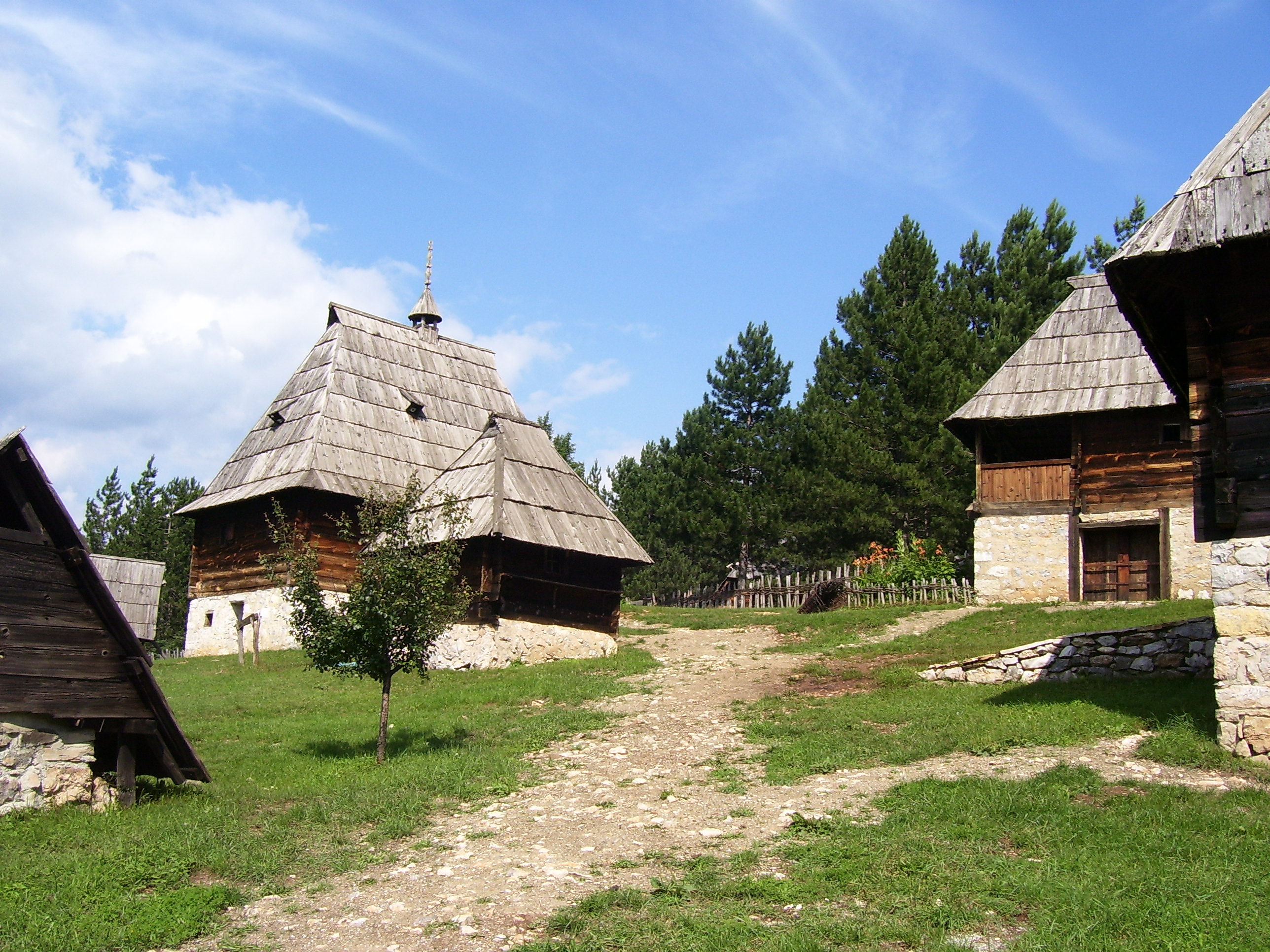 Sirogojno, open air museum village, Serbia